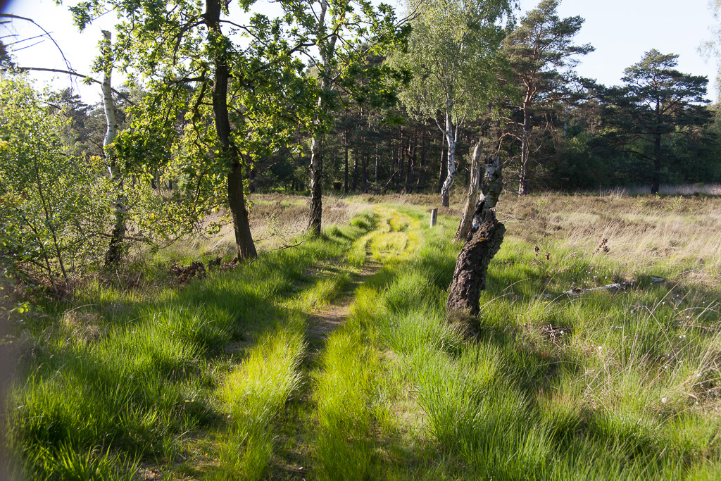 Schnaakenmoor end of may 2014